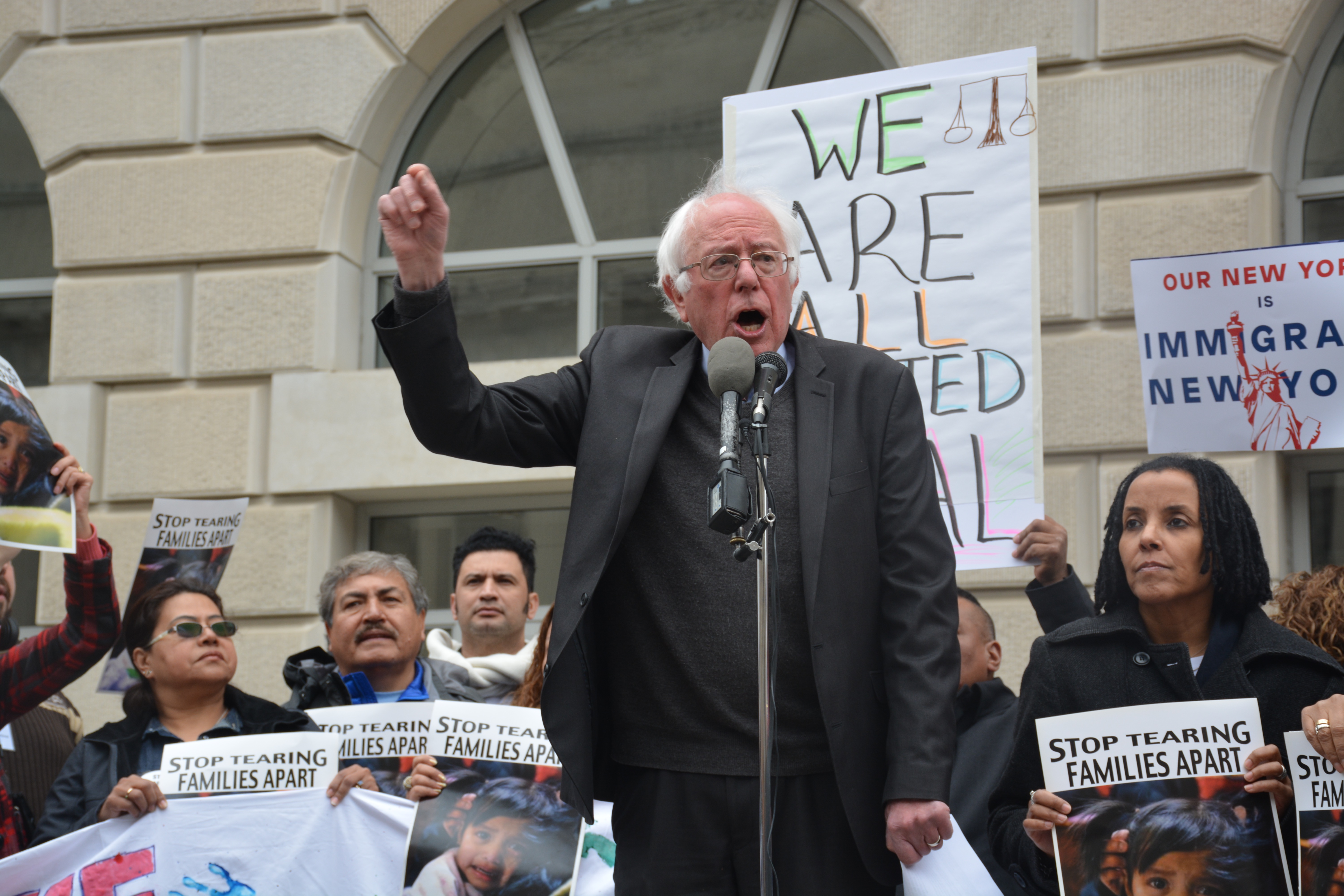 Photo taken outside the Custom Border Protection office in Washington DC. Our FIRM org organized the event and get speakers, such as Bernie to speak. Taken 03/21/2017. Photographer: Anh K. Hoang